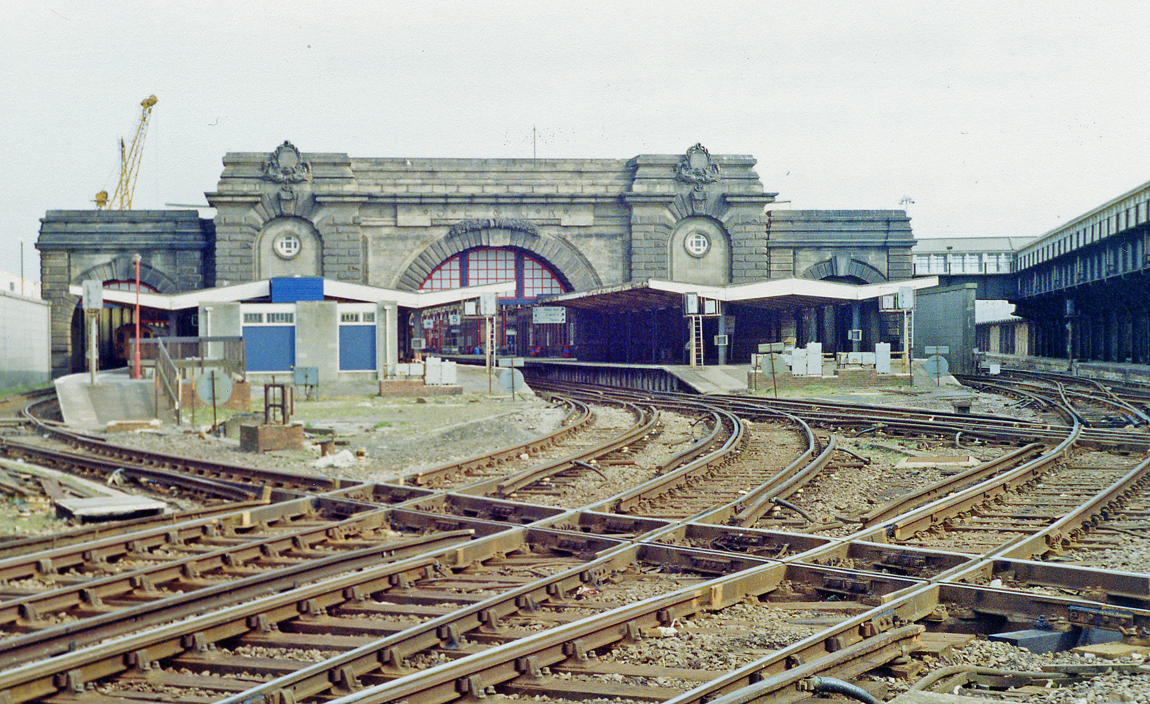 Dover Marine station, 1990. View SE towards the buffers: ex-SE&CR terminus, closed 19/11/94. Behind to the left is Hawkesbury Street Junction and Dover Priory, to the right from Archcliffe Junction and Folkestone etc.; the line crossing in the foreground is leading to Admiralty Pier